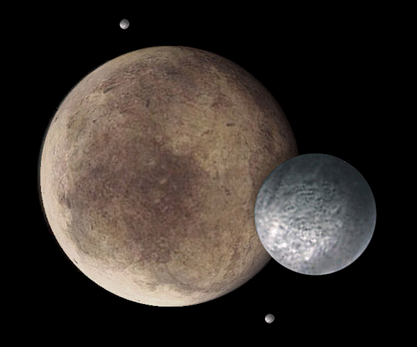 Artist rendering of dwarf planet Pluto and its moons